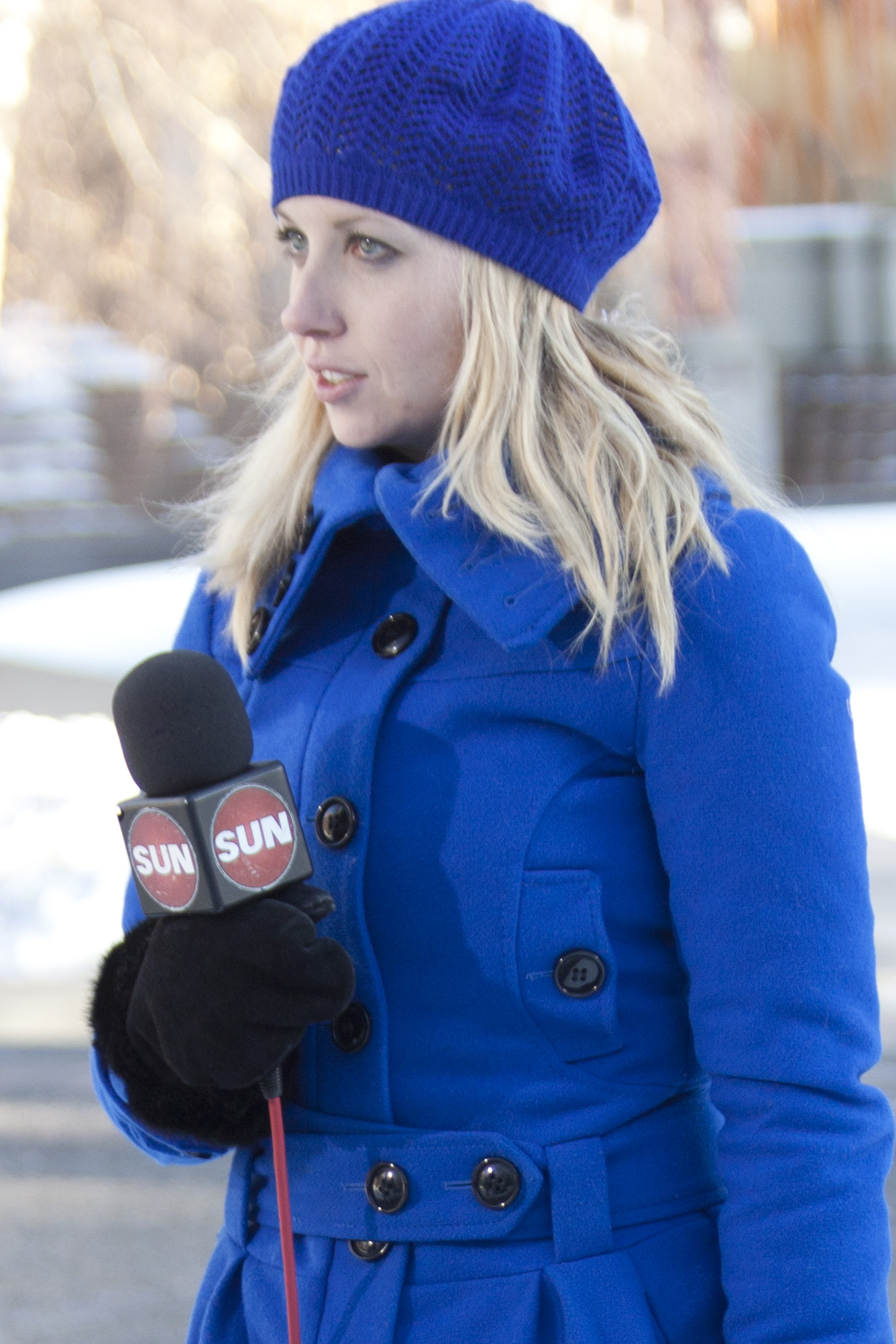 Andrea Slobodian doing a news report for Sun News Network at Olympic Plaza in downtown Calgary, Alberta, Canada